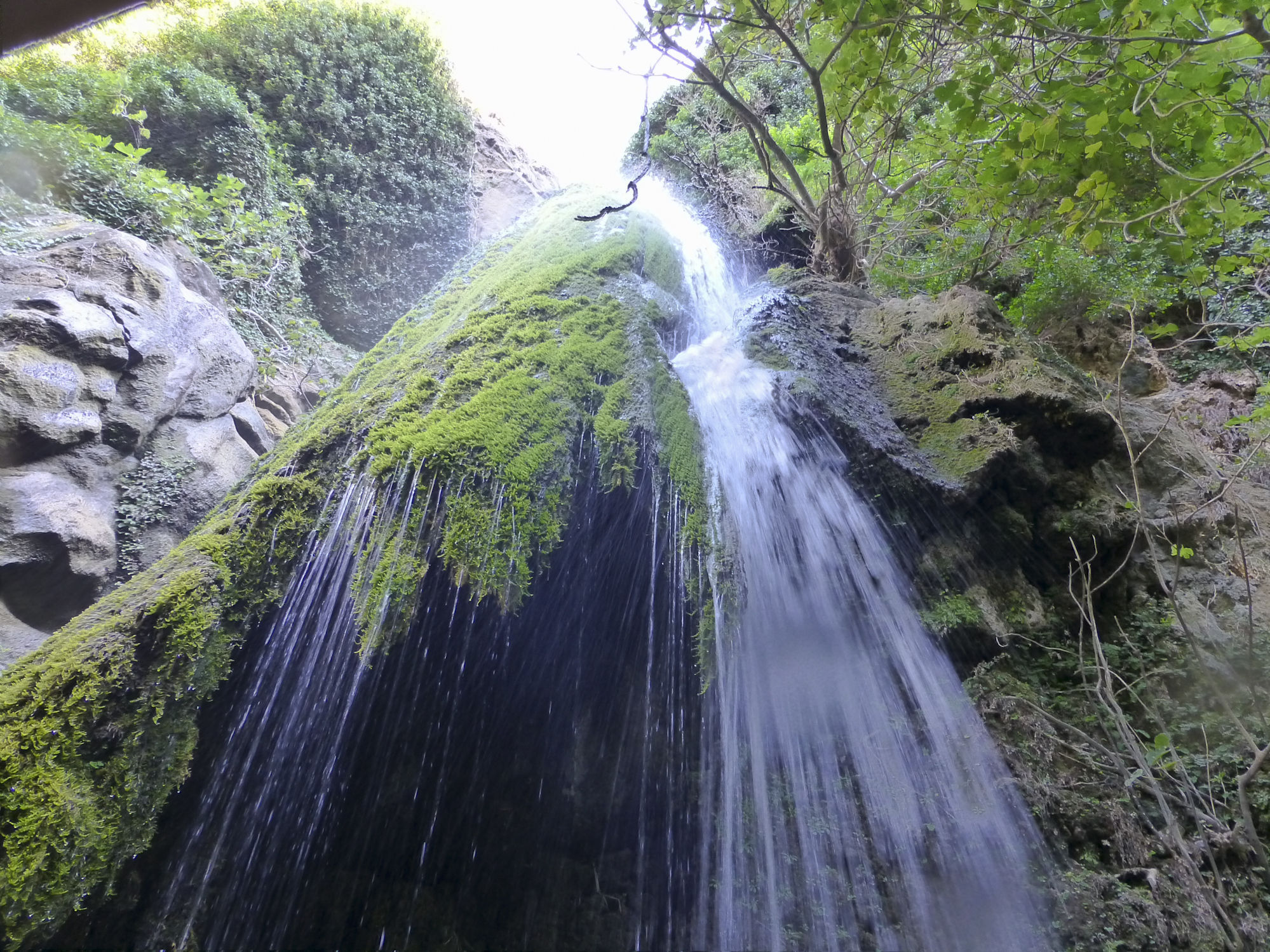 Richtis waterfall captured from below